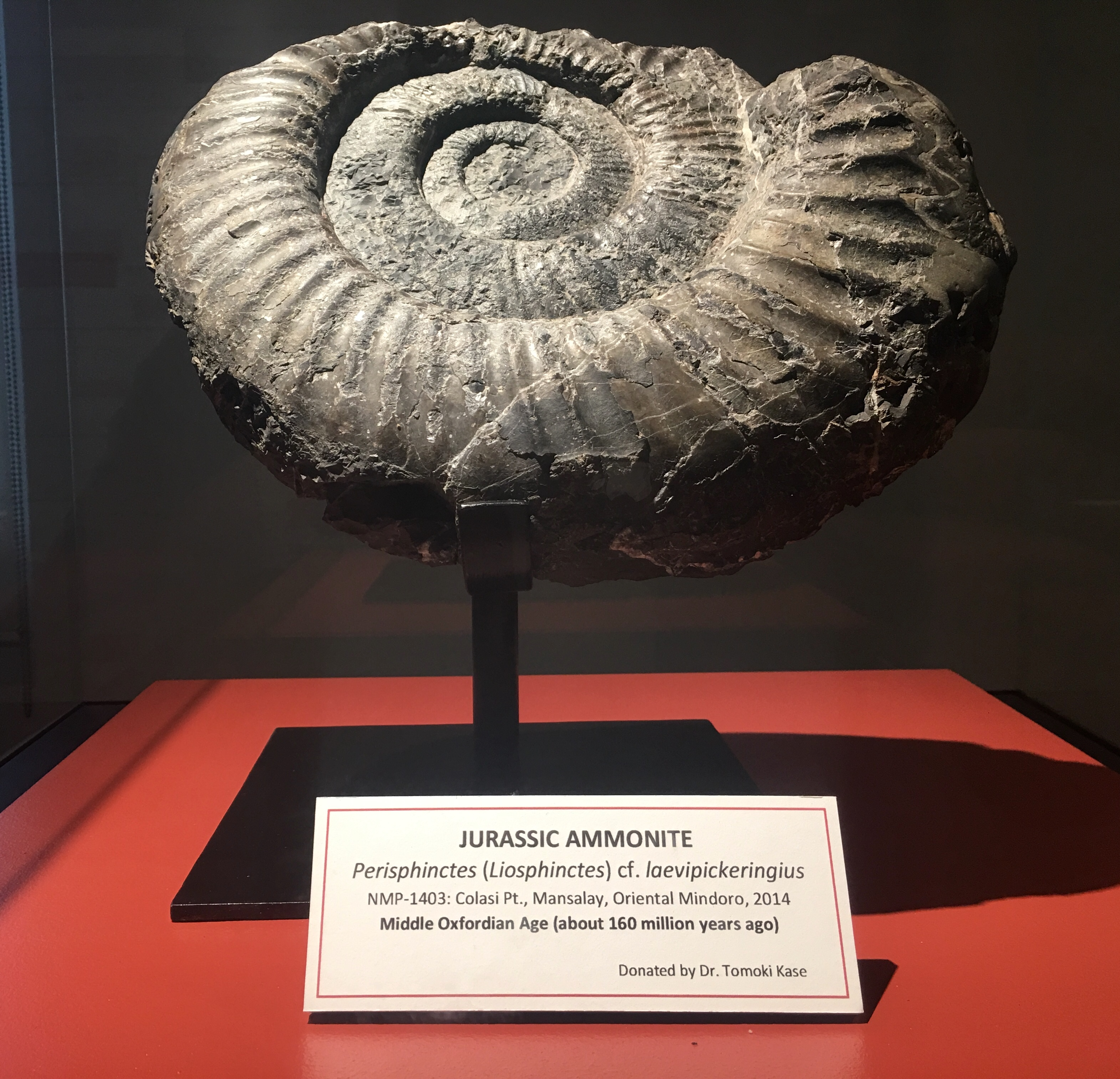 A 160 million years old Jurassic Ammonite fossil displayed at Philippine National Museum